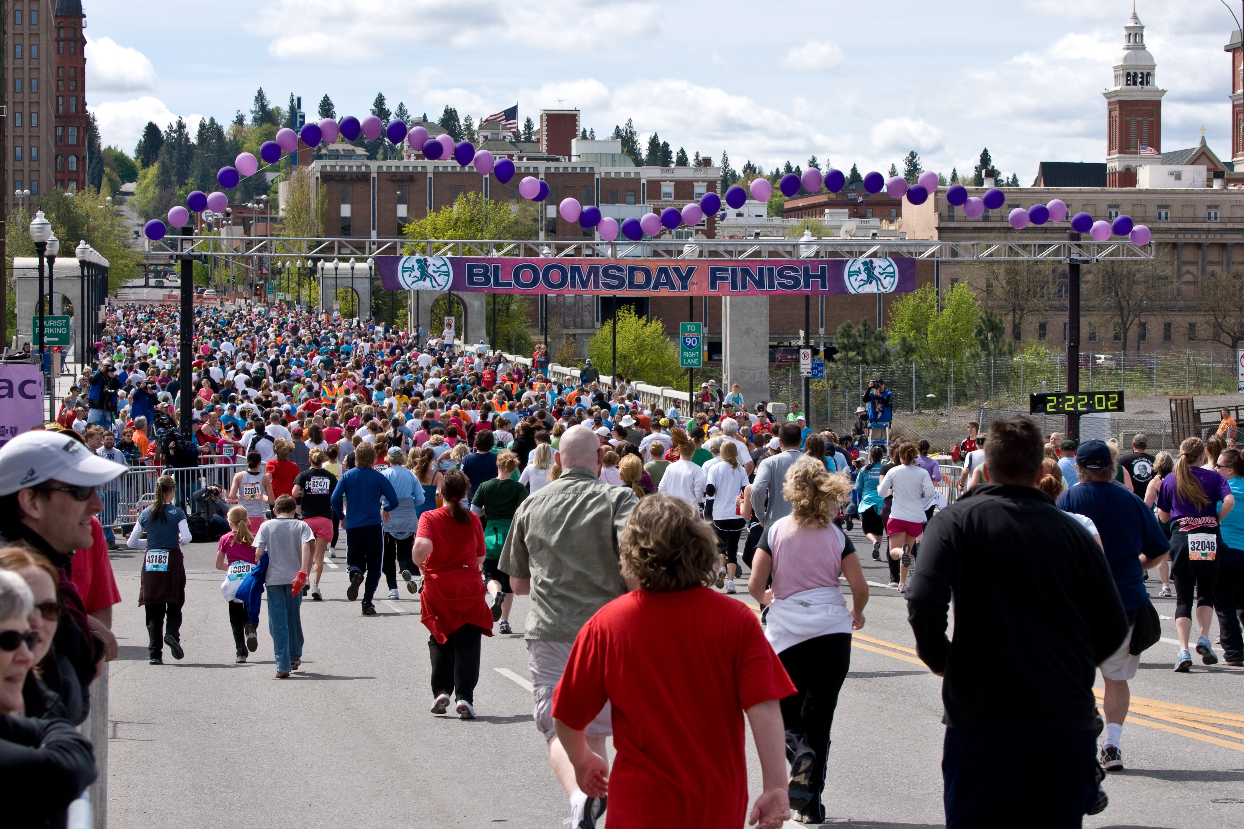 Bloomsday Run Finish Line 2010 Race, Spokane, Washington. Picture donated to The World by Matthew Staben, Spokane, Washington